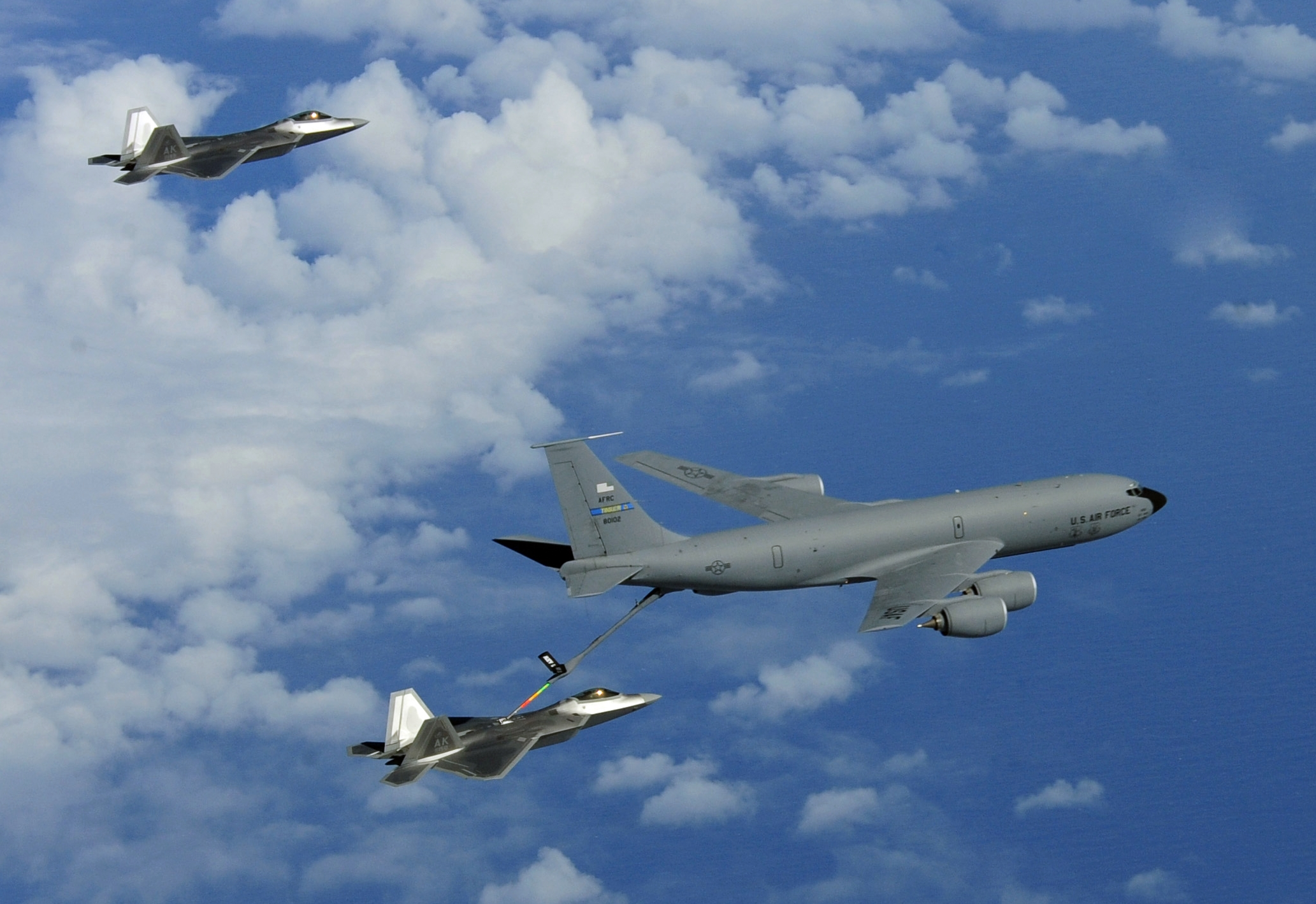 A U.S. Air Force Lockheed Martin F-22A Raptor aircraft, assigned to the 90th Fighter Squadron, 3rd Wing, from Elmendorf Air Force Base, Alaska (USA), receives fuel from a Boeing KC-135R Stratotanker aircraft (s/n 58-0102) assigned to the 465th Air Refueling Squadron, 507th Air Refueling Wing, out of Tinker AFB, Oklahoma (USA), near Anderson AFB, Guam, on 17 February 2010.